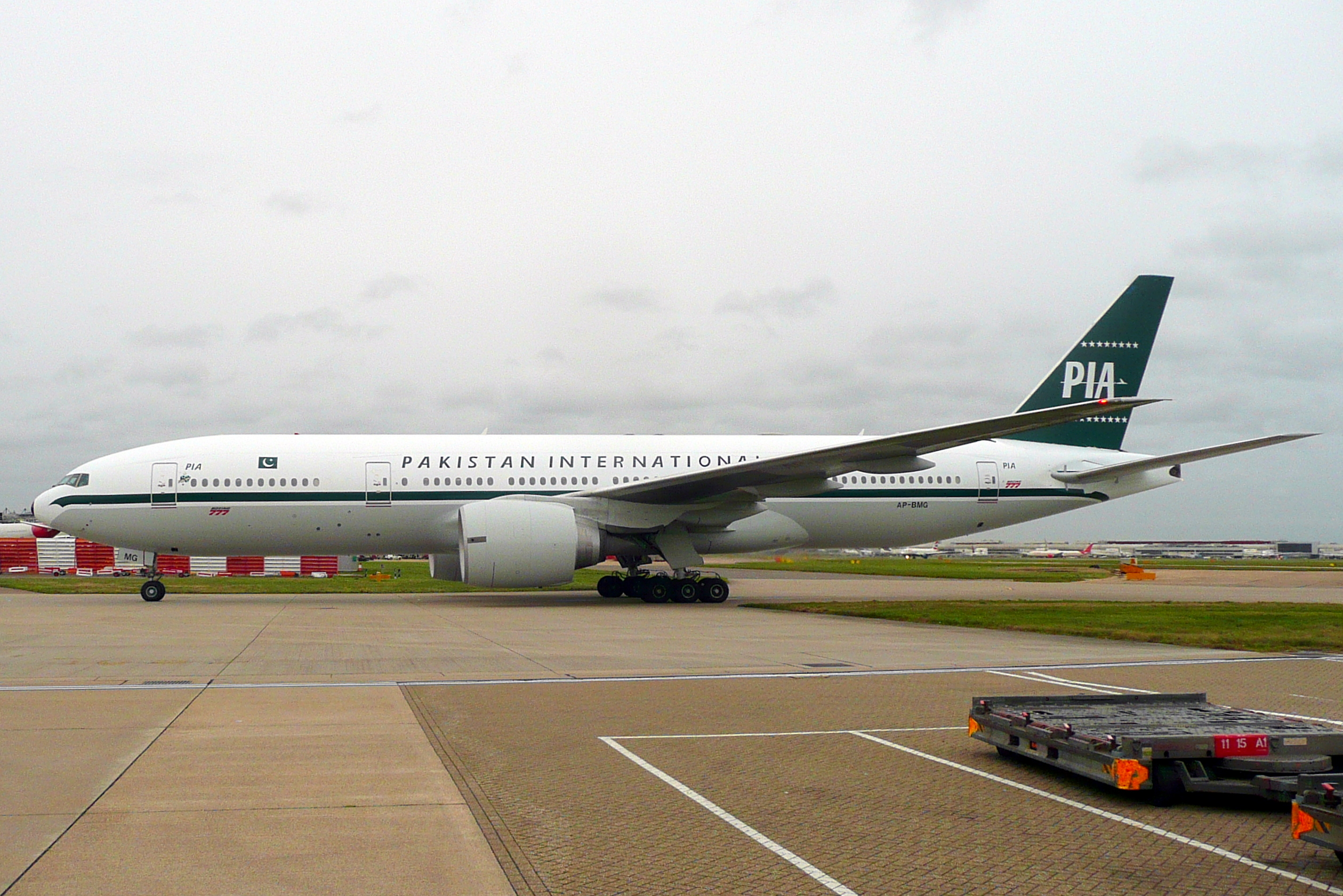 London Heathrow Airport